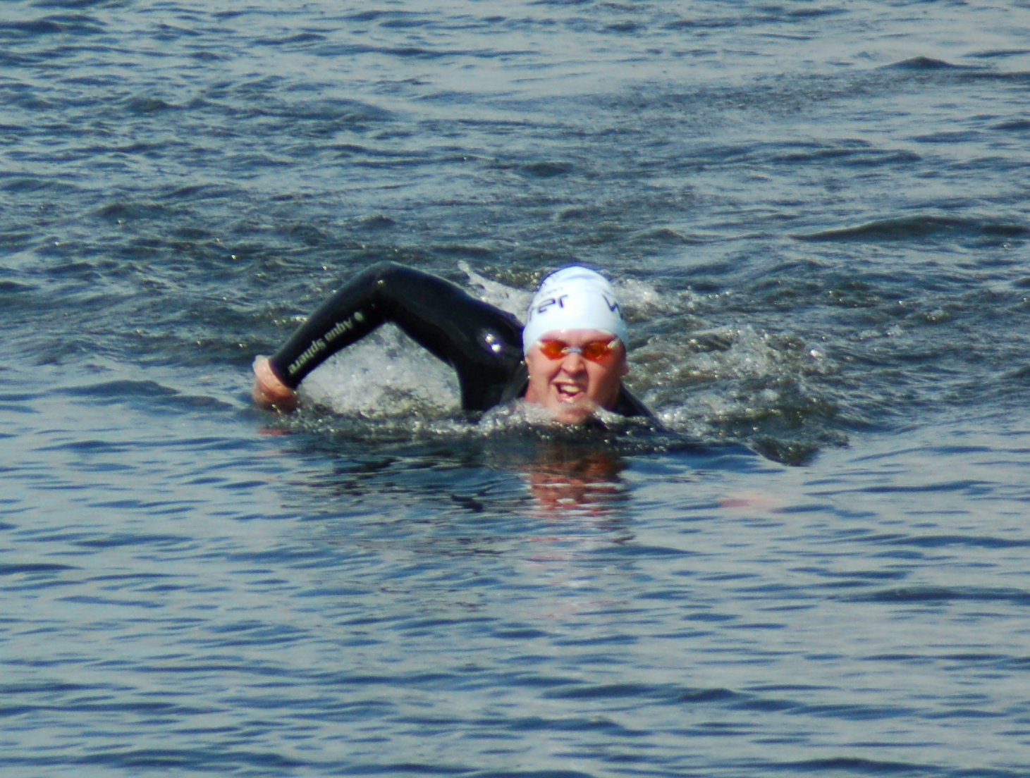 How to orientate during swimming